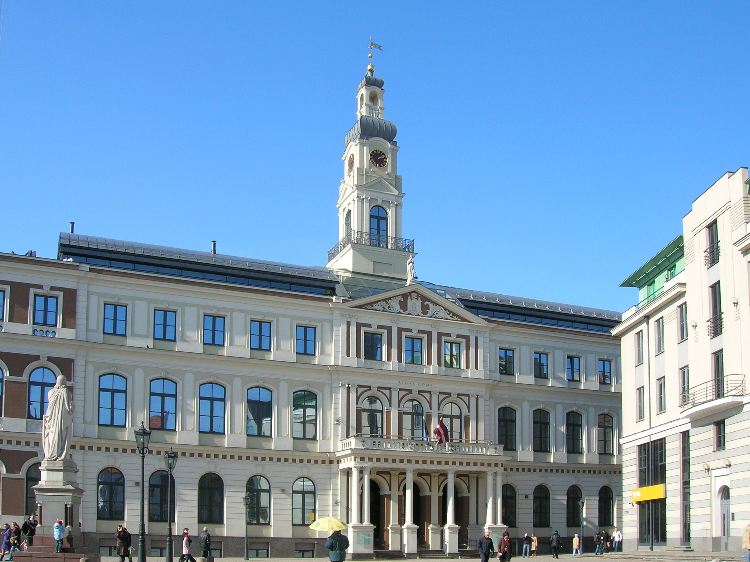 City Hall in Riga, Latvia.